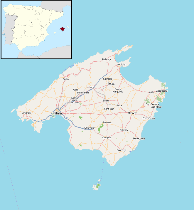 Map of Majorca Geographic limits of the map: N: 40.218° S: 39.012° W: 2.224° E: 3.671°